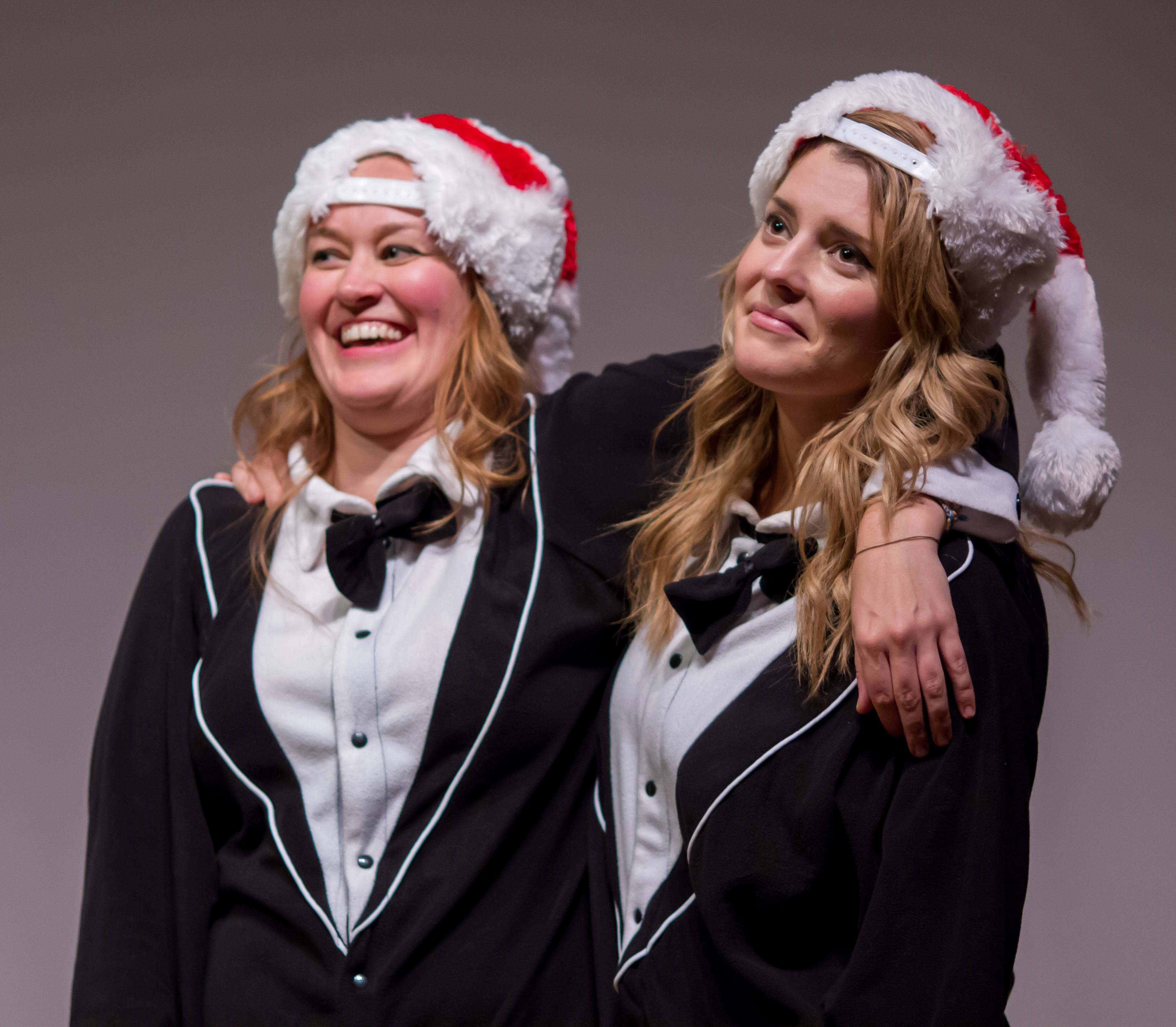 Mamrie Hart and Grace Helbig onstage at No Filter in Portland, Oregon, in December 2013.